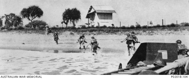 Tamatave, Madagascar. 1942-05. British troops disembarking from an assault craft on the west coast. The operation, to prevent Japanese forces from capturing the island, lasted some months against light Vichy French opposition. Australian warships supported the operation.